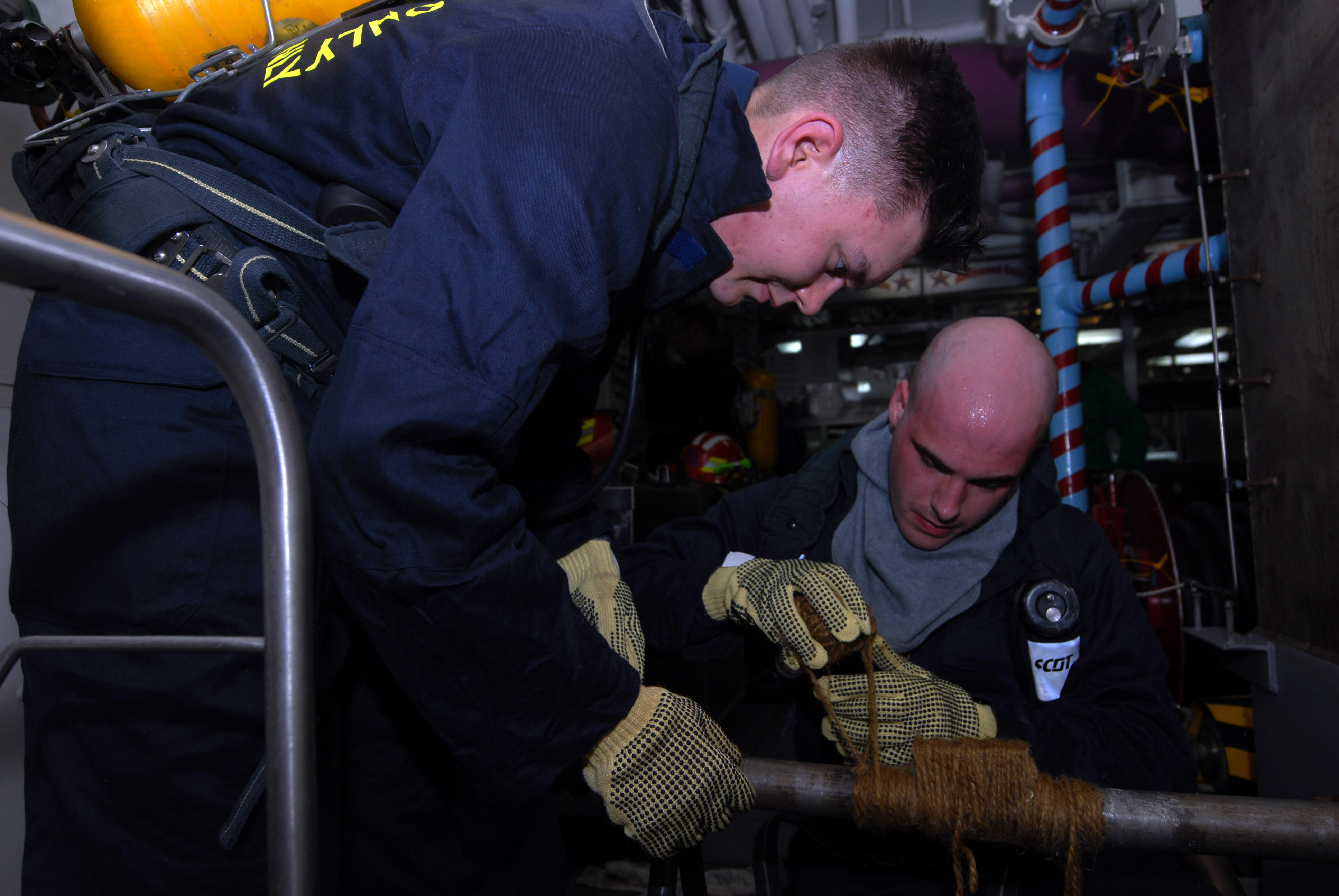 INDIAN OCEAN (Aug. 27, 2008) Machinist's Mate 3rd Class Michael Scholten, left, and Machinist's Mate 3rd Class Kyle Auger-Albanese repair a simulated cracked pipe with soft patch during a general quarters drill aboard the Nimitz-class aircraft carrier USS Ronald Reagan (CVN 76). Ronald Reagan is deployed in the U.S. 5th Fleet area of responsibility. (U.S. Navy photo by Mass Communication Specialist 3rd Class Torrey W. Lee/Released)